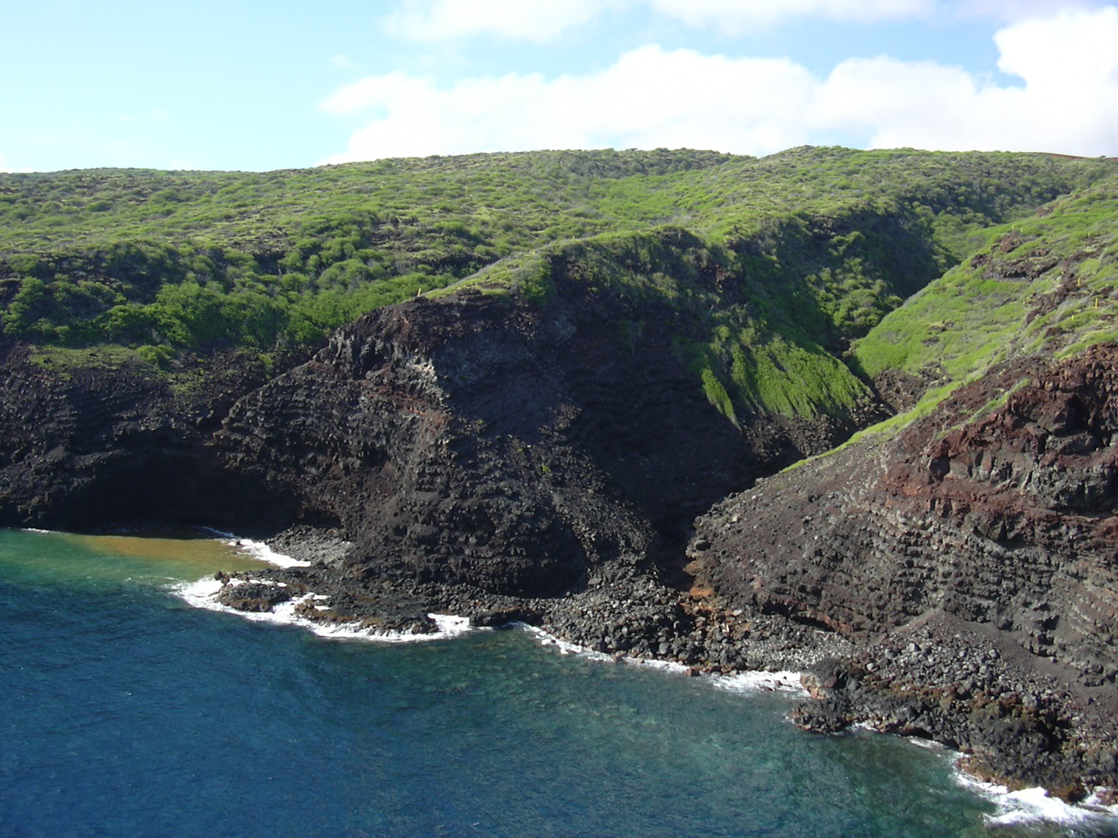 Chamaesyce celastroides (habitat). Location: Kahoolawe, Coast